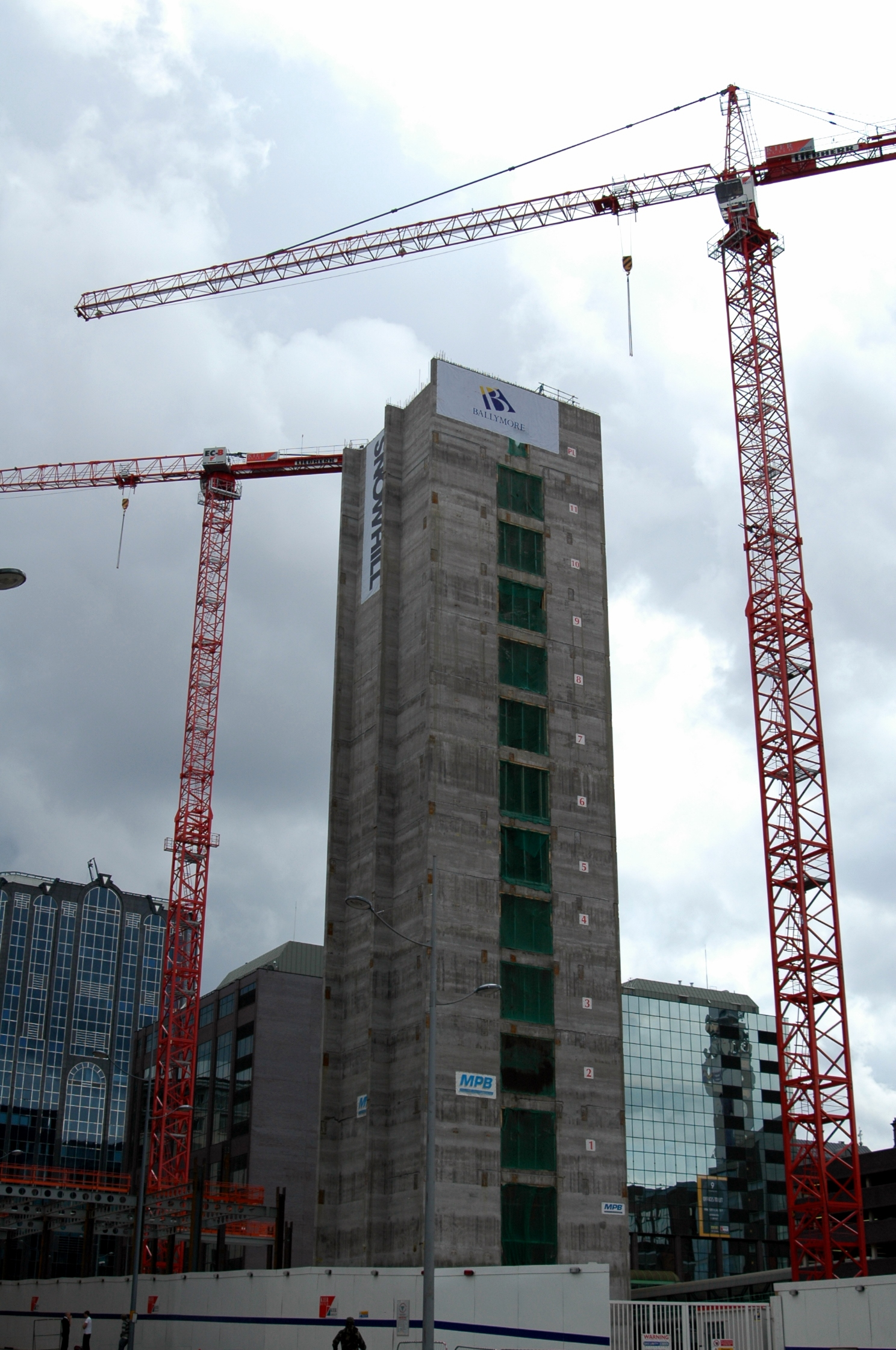 A view of construction work at the Snowhill site in Birmingham, England. The building under construction is Phase 1, an office building.